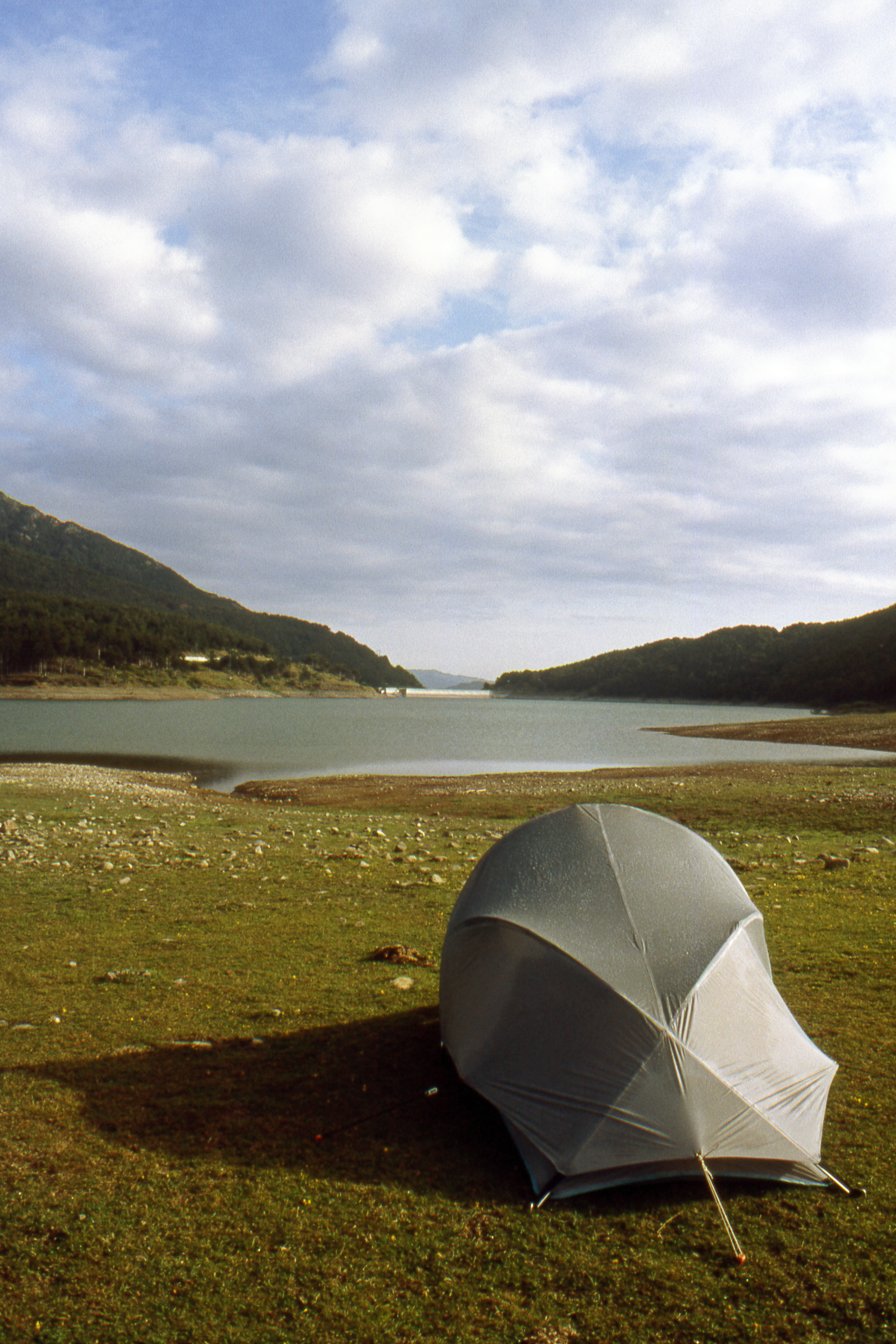 Lago Paduli - Lagastrello, Comano, Massa Carrara, Italy